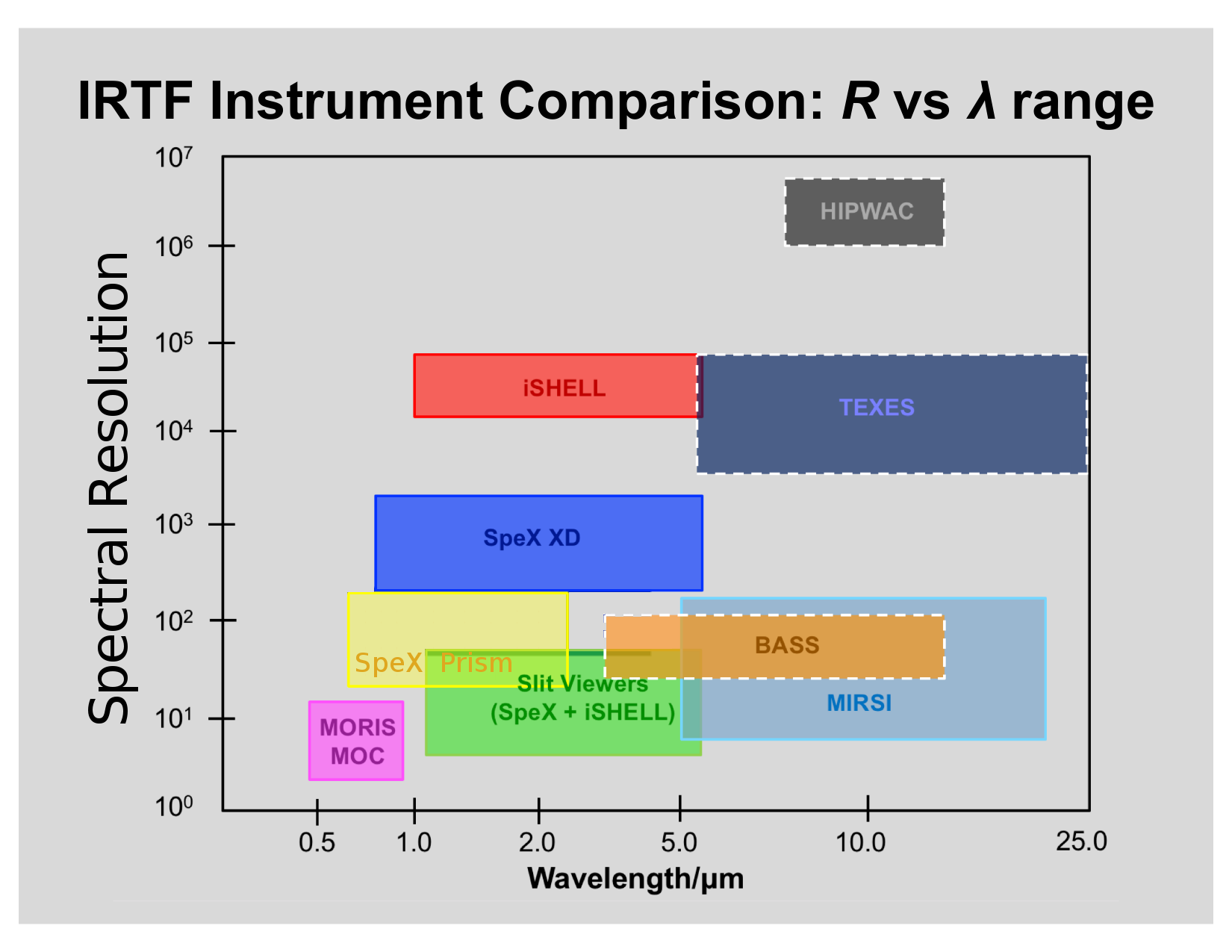 Schematic of the spectroscopic capabilities of the NASA IRTF in terms of wavelength coverage vs. spectral resolution, as of late 2019. Various instruments and their observing modes are indicated by the shaded boxes. Visitor instruments are indicated by dashed outlines.